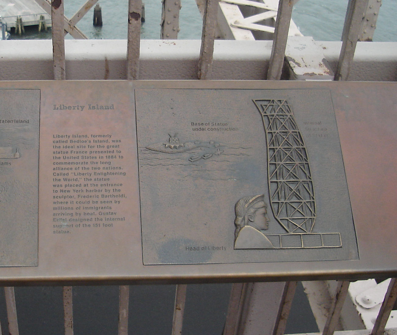 Guideboard of Statue OF Liberty under construction